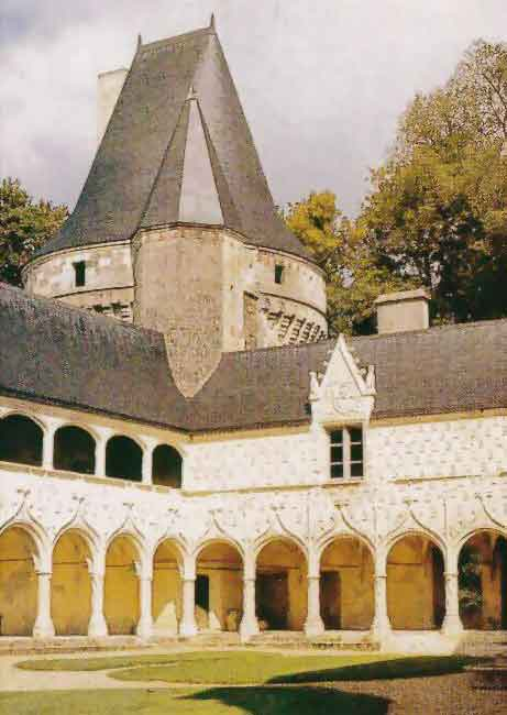 Gallery of the renaissance castle in Argy, France.